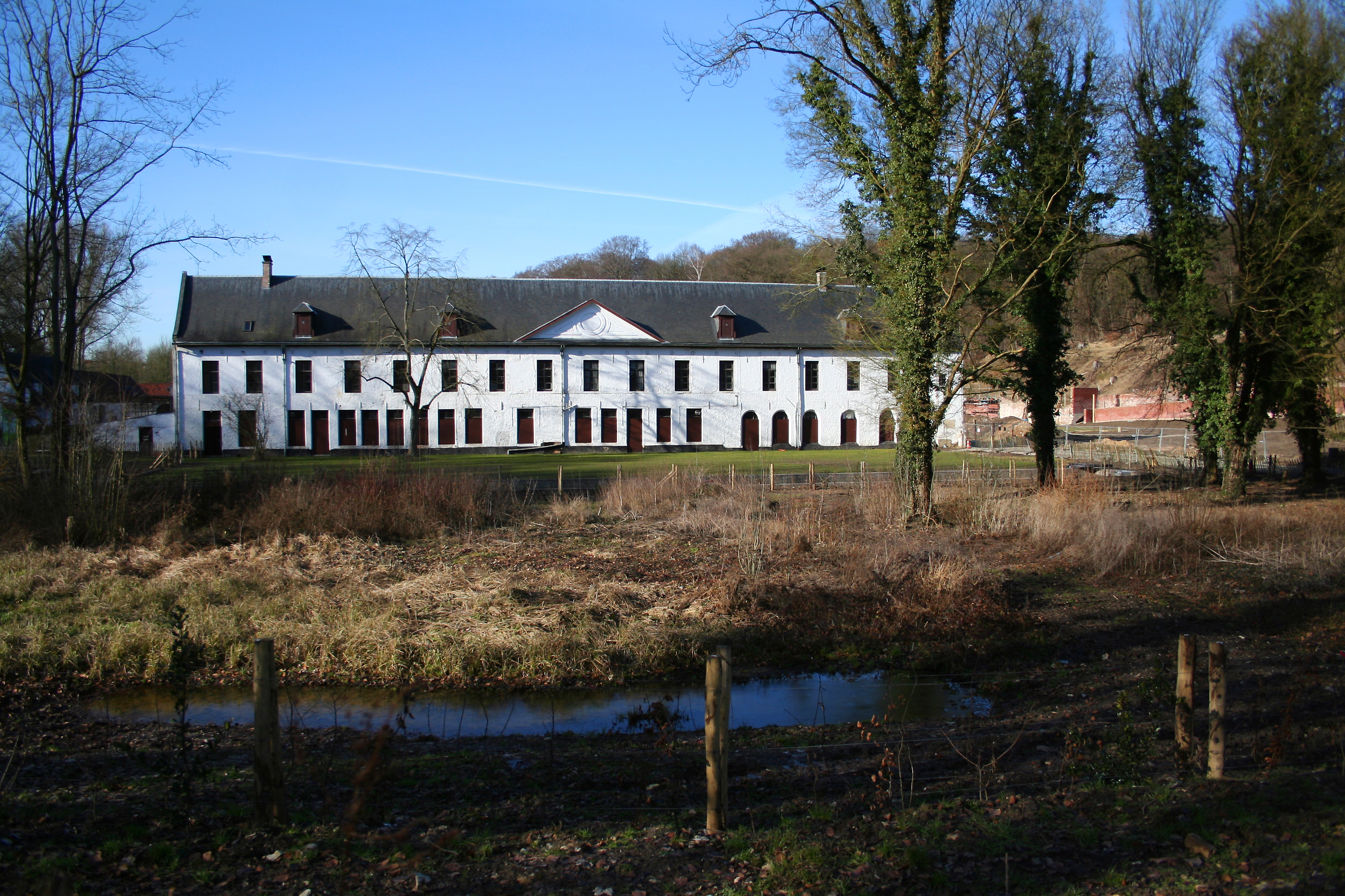 Auderghem (Belgium), southeast side of the former Red Cloister abbey priory.